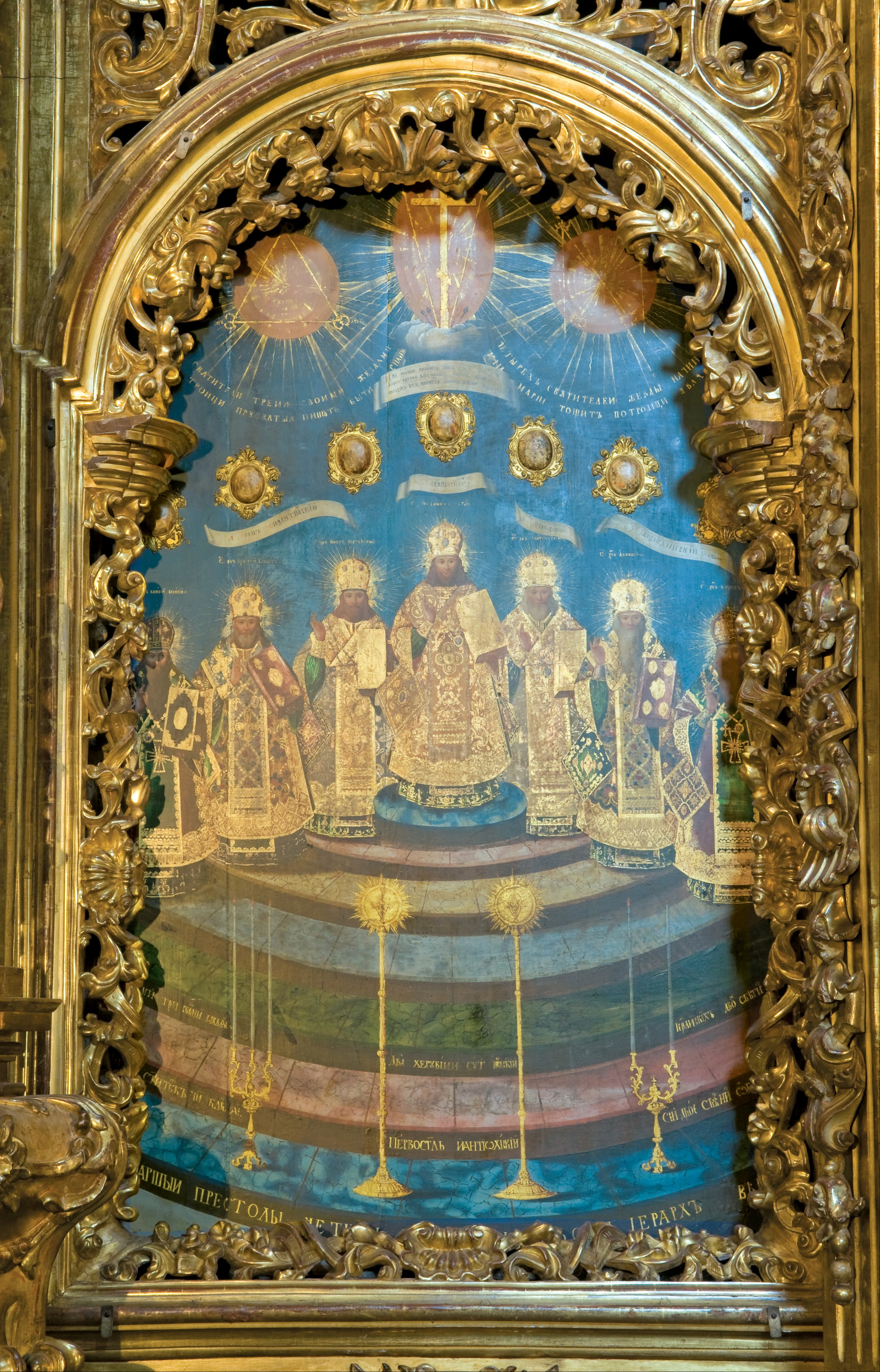 The images of seven prelates of the Orthodox Church represent four patriarchal polities of Jerusalem, Constantinople, Antioch and Alexandria. In the center there portrayed the brother of the Lord – Saint Jacob the Apostle, to the right- Saints John Chrysostom, Gregory the Theologian, Basil the Great, to the left – Ignatius of Antioch, Athanasius and Cyril of Alexandria. Above them in seven medallions the emblems of the Saints are depicted. The triangle, consisting of three archpastoral rods – symbolizes Trinity as a Celestial Church and four rods make letter “M” - the first letter in the name of Holy Mother, which symbolizes the Church.